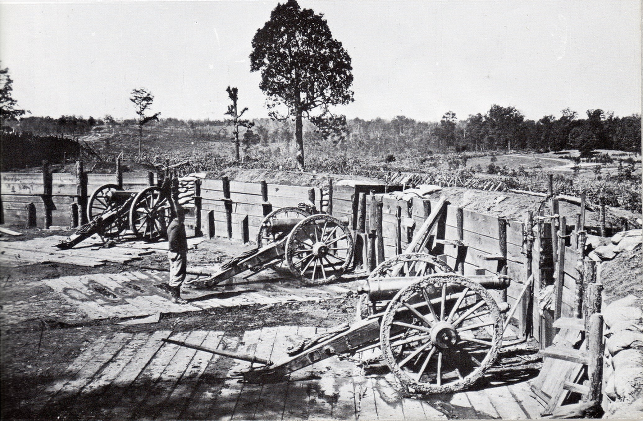 Confederate sappers constructed a number of artillery emplacements covering the avenues of approach to Atlanta. The artillery in this fortification overlooks Peachtree Street. Picture shot taken from a shopping store in the Lincoln Memorial in Washington D.C.